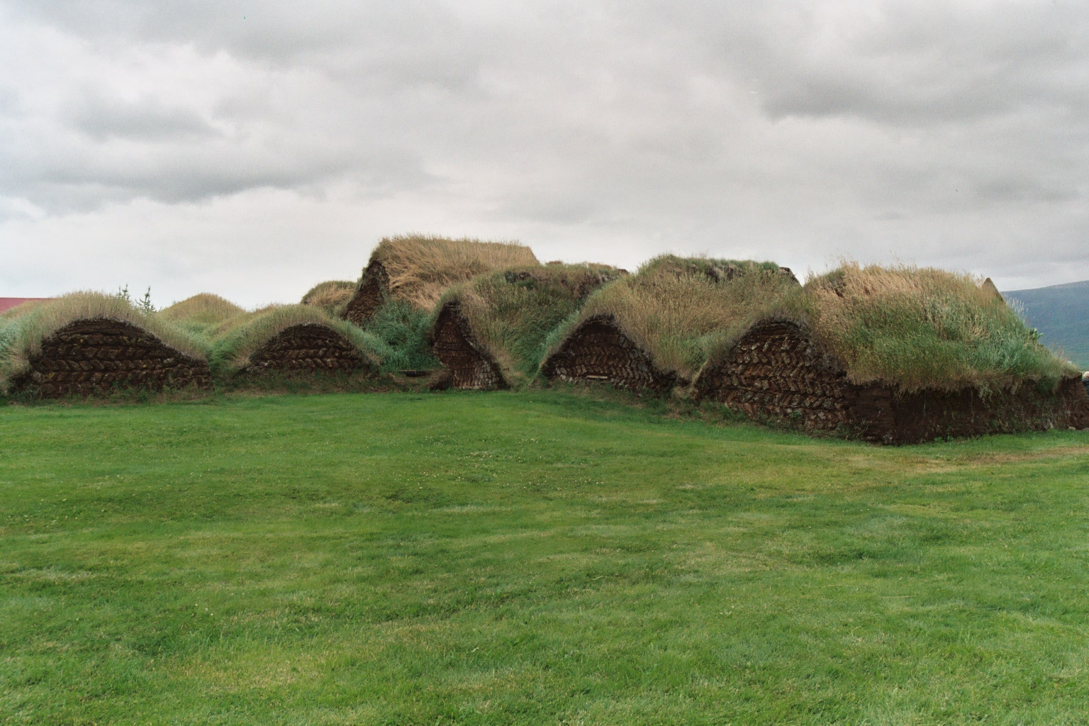 The Glaumbær peat farmhouse Author: Johann Dréo (User:Nojhan) Date: 2004, july Notes: Back view of the farmhouse, near the Glaumbær village, in Iceland.